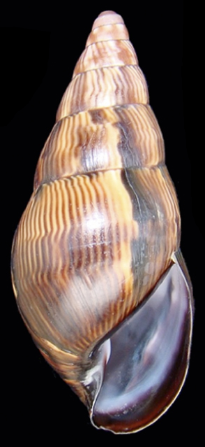 Photo of apertural view of the shell of Corona pfeifferi. Shell height 52.2 mm. RMNH 114185. (Netherlands Centre for Biodiversity Naturalis, Leiden, the Netherlands).